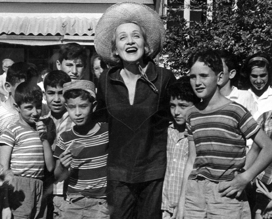 Marlene Dietrich in Ben-Shemen during a 1960 concert tour of Israel.